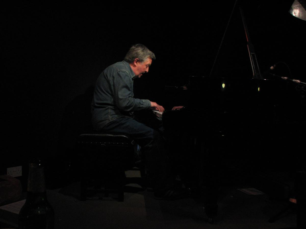 Howard Riley, improvising pianist - at the Vortex London in 2008